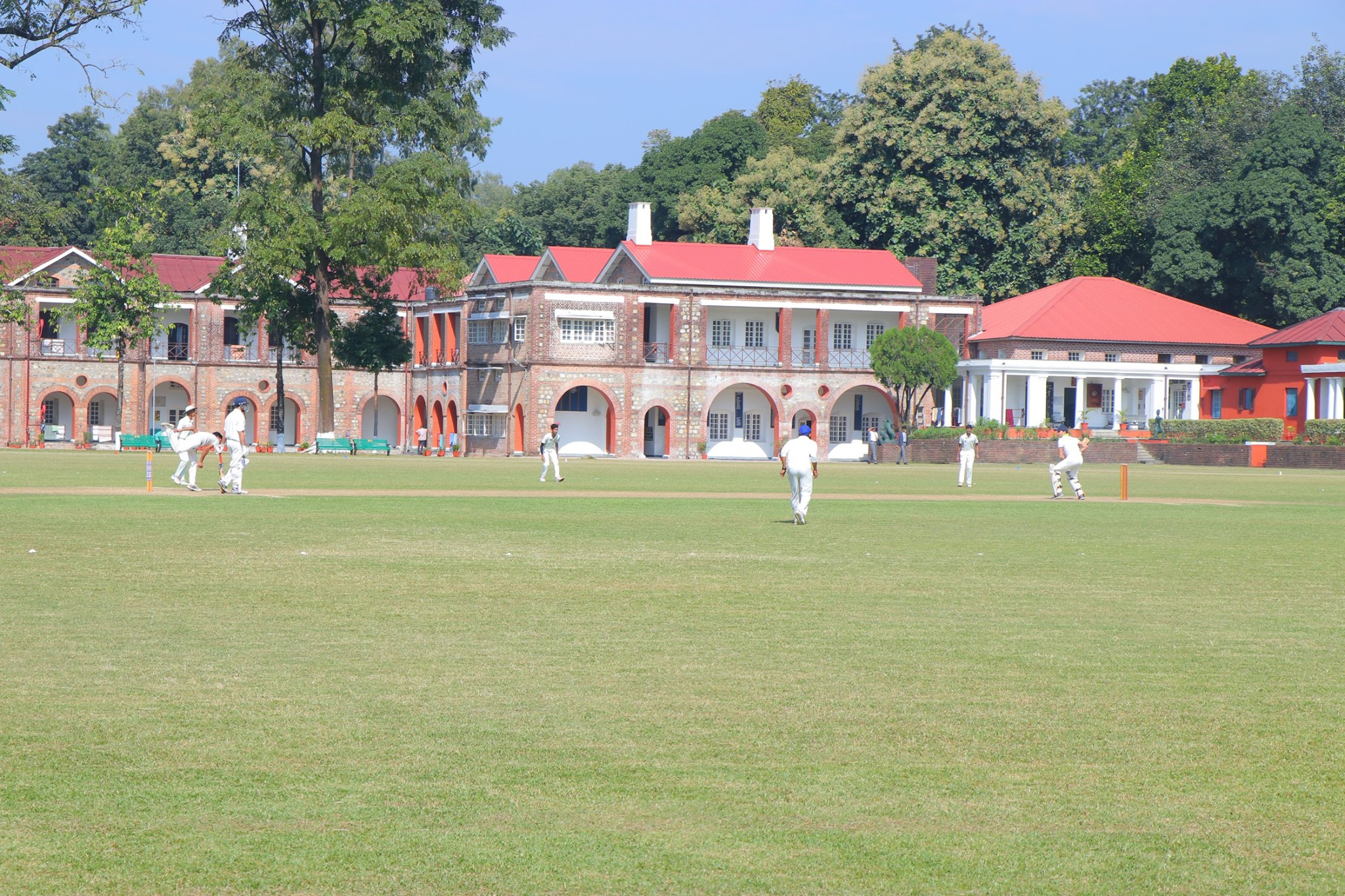 A cricket game in progress on the Main Field at The Doon School, Dehradun, India.